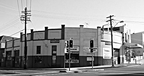 Image of garage owned by Lyall Howard, where John Howard (Prime Minister of Australia) worked as a boy